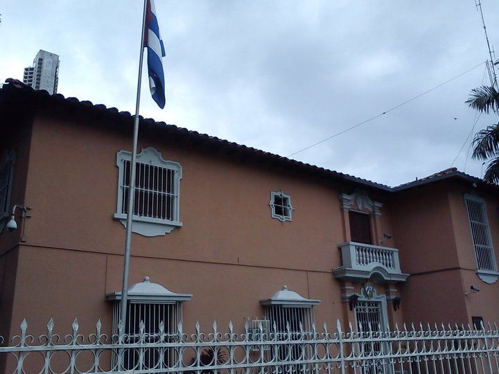 Cuban embassy, Panama City